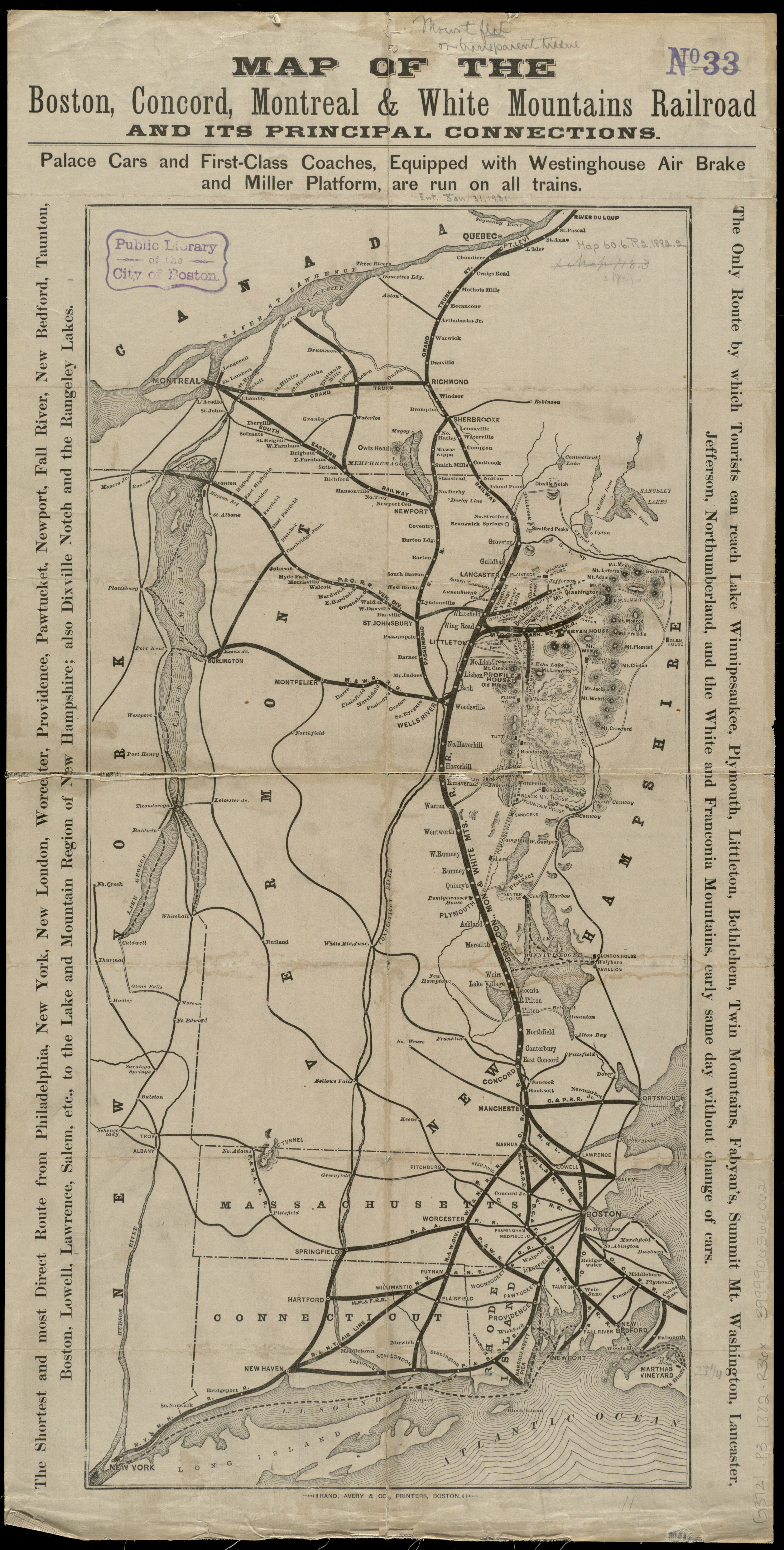 Zoom into at Author: Rand, Avery & Co. Publisher: Rand, Avery & Co. Date: 1882 Location: New England Dimensions: 60 x 28 cm. Scale: [ca. 1:1,200,000] Call Number: G3721.P3 1882 .R36x